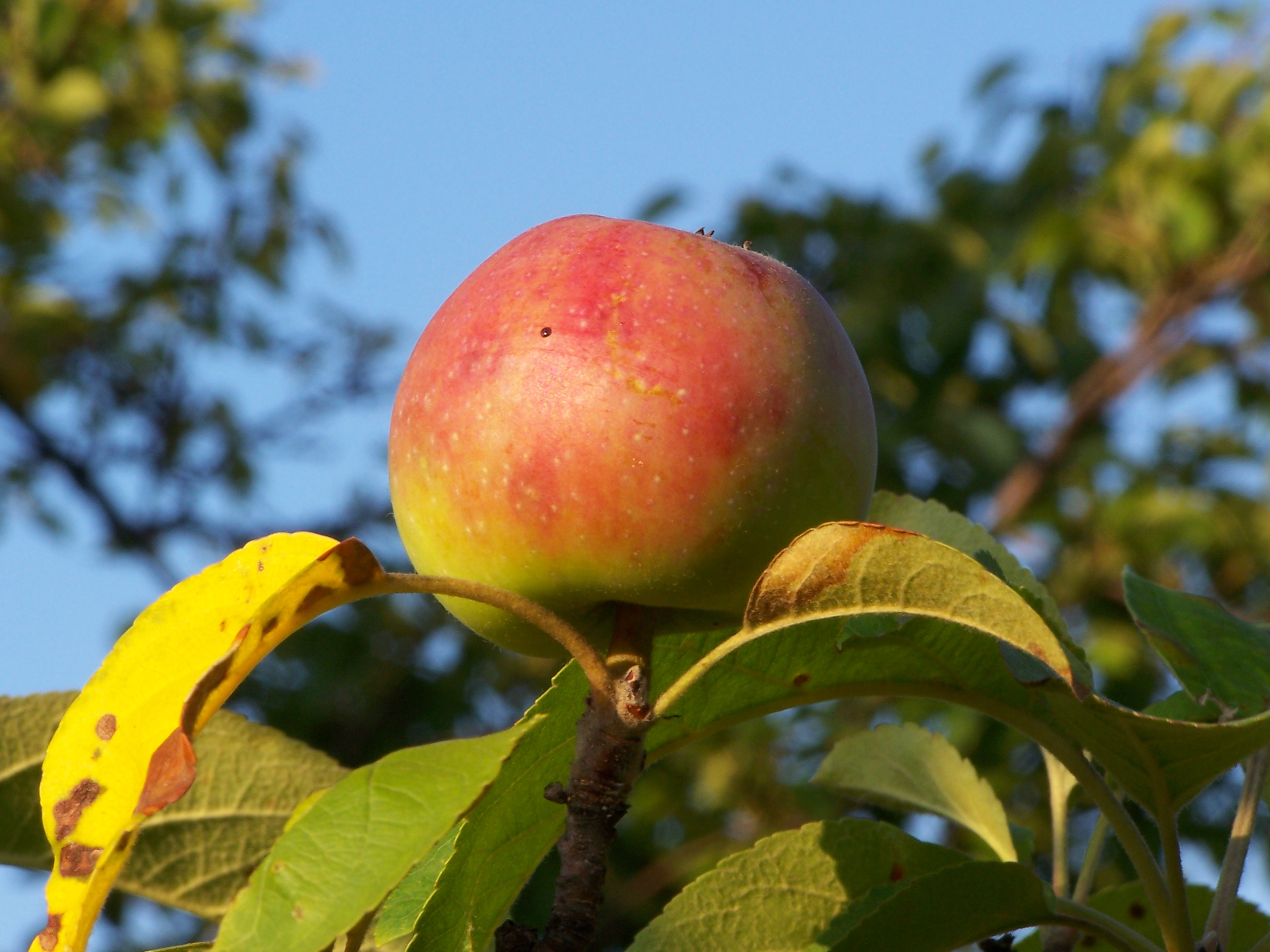 Apple.